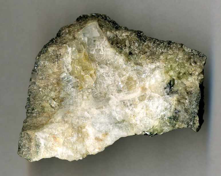 Bromellite, Phenakite, Chrysoberyl, Phlogopite Specimen size: 8 cm x 5 cm x 3 cm Locality: Malyshevskaya pit, Malyshevskoe deposit (Mariinskoe), Izumrudnye Kopi area, Malyshevo, Ekaterinburg (Sverdlovsk), Sverdlovskaya Oblast', Middle Urals, Urals Region, Russia Original description: Agregate of large cm-size transparent, colourless and slightly yellowish crystals of bromellite cemented by white, granular, sugar-like phenakite masse. This agregate divided from phlogopite shist by crust of olive-green crystaline chrysoberyl. Collected in 2000. Pavel M. Kartashov collection (#2050) and photo.